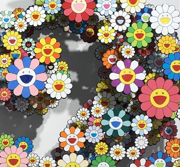 Abstract image by artist Takashipoma at the London Galler